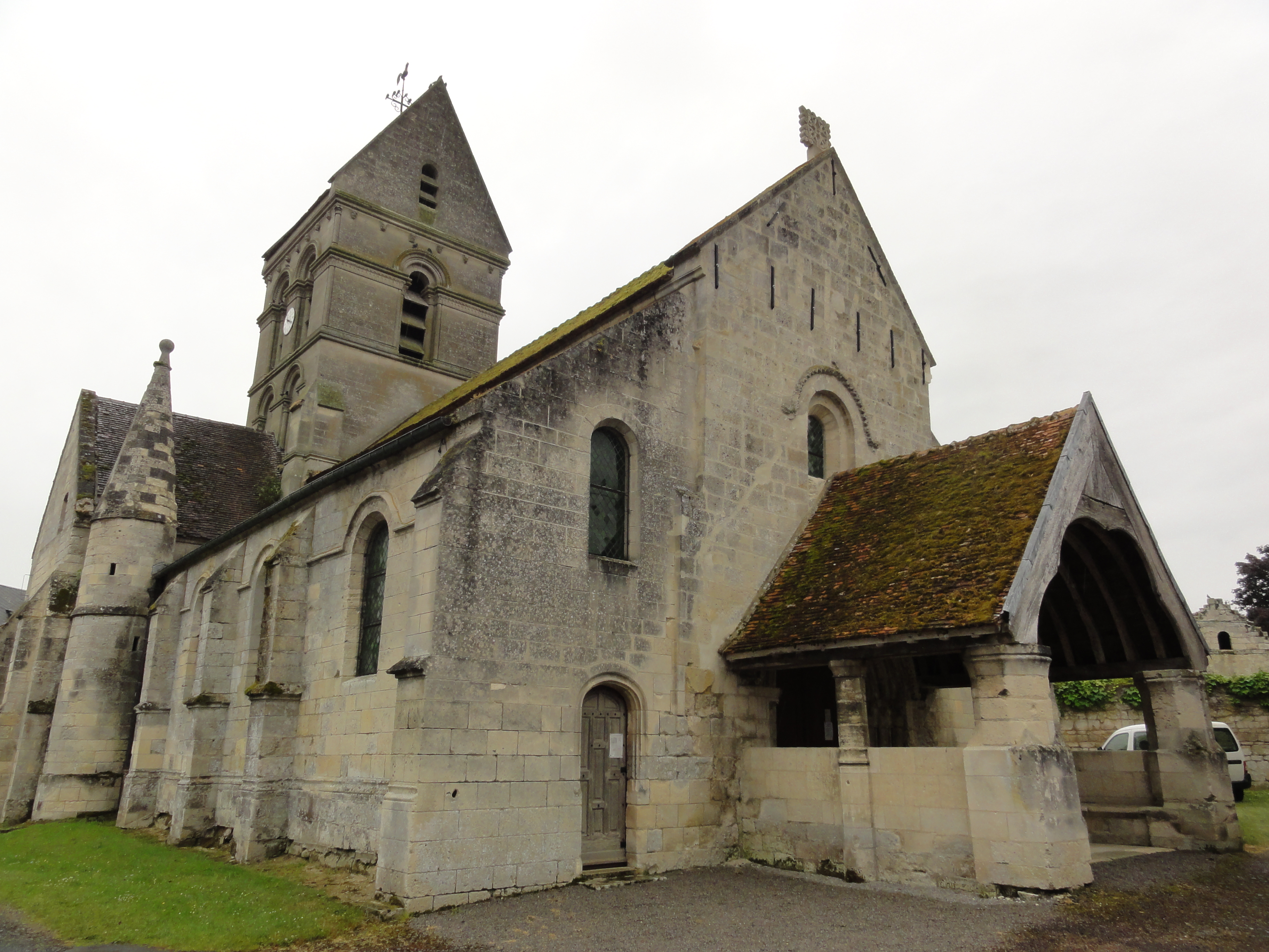 Vauxrezis (Aisne) église Saint-Maurice